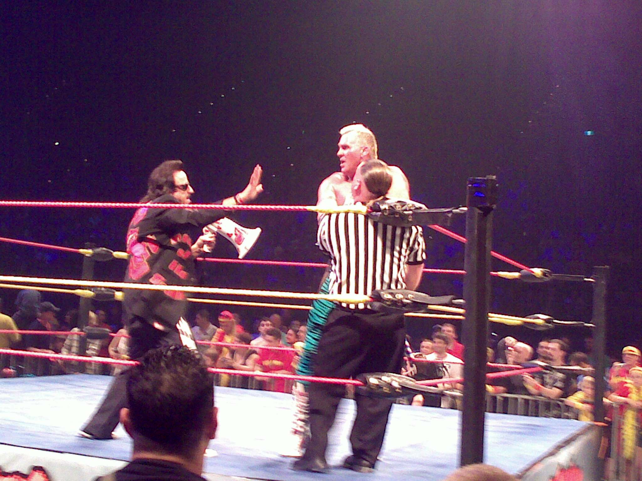 brutus beefcake with jimmy hart